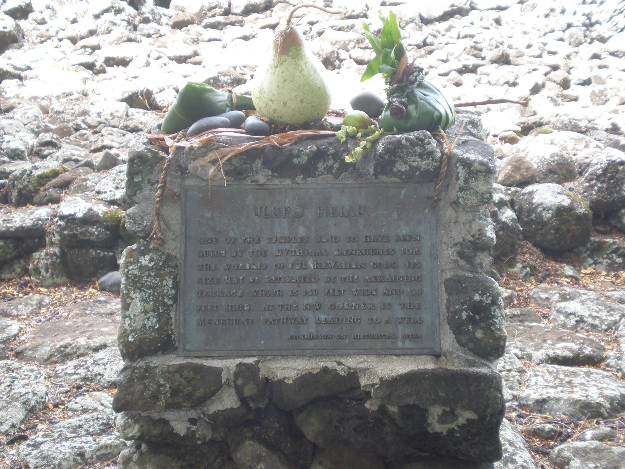 Altar & memorial marker, Ulupō Heiau, Kailua, Hawaii, on State and National Register of Historic Places